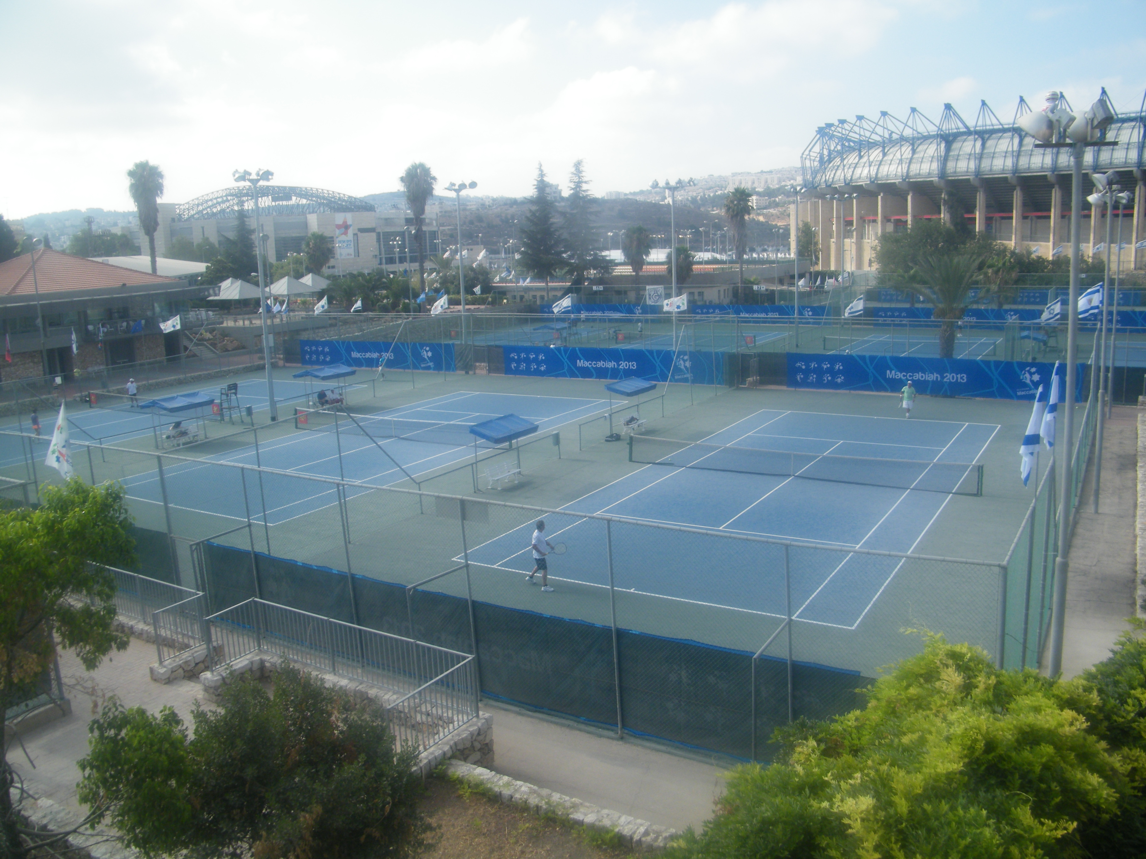 A photo of Israel Tennis Center - Jerusalem